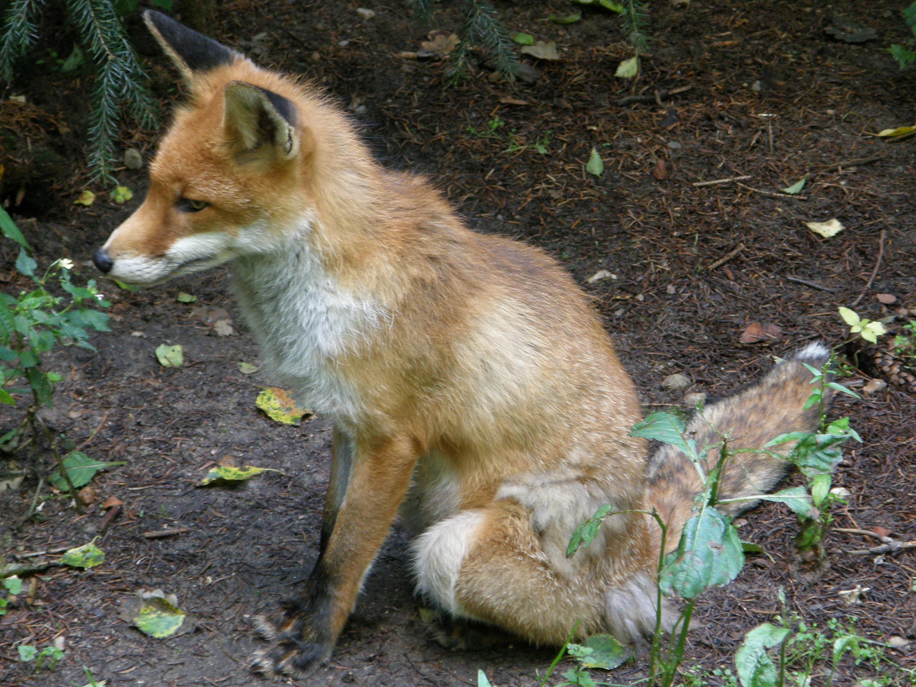 Fox